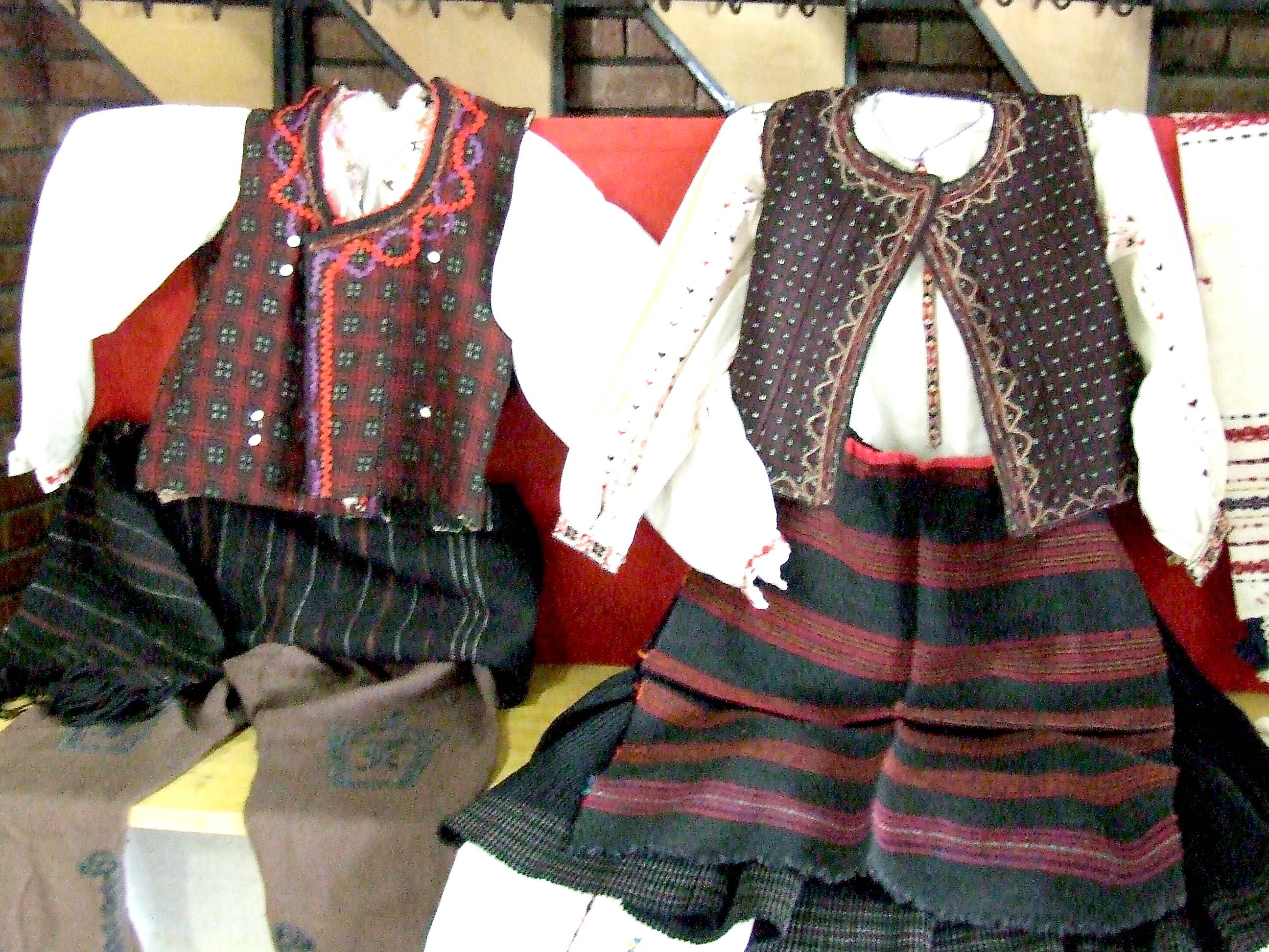 Male and female national costume from the village of Sadina, Bulgaria